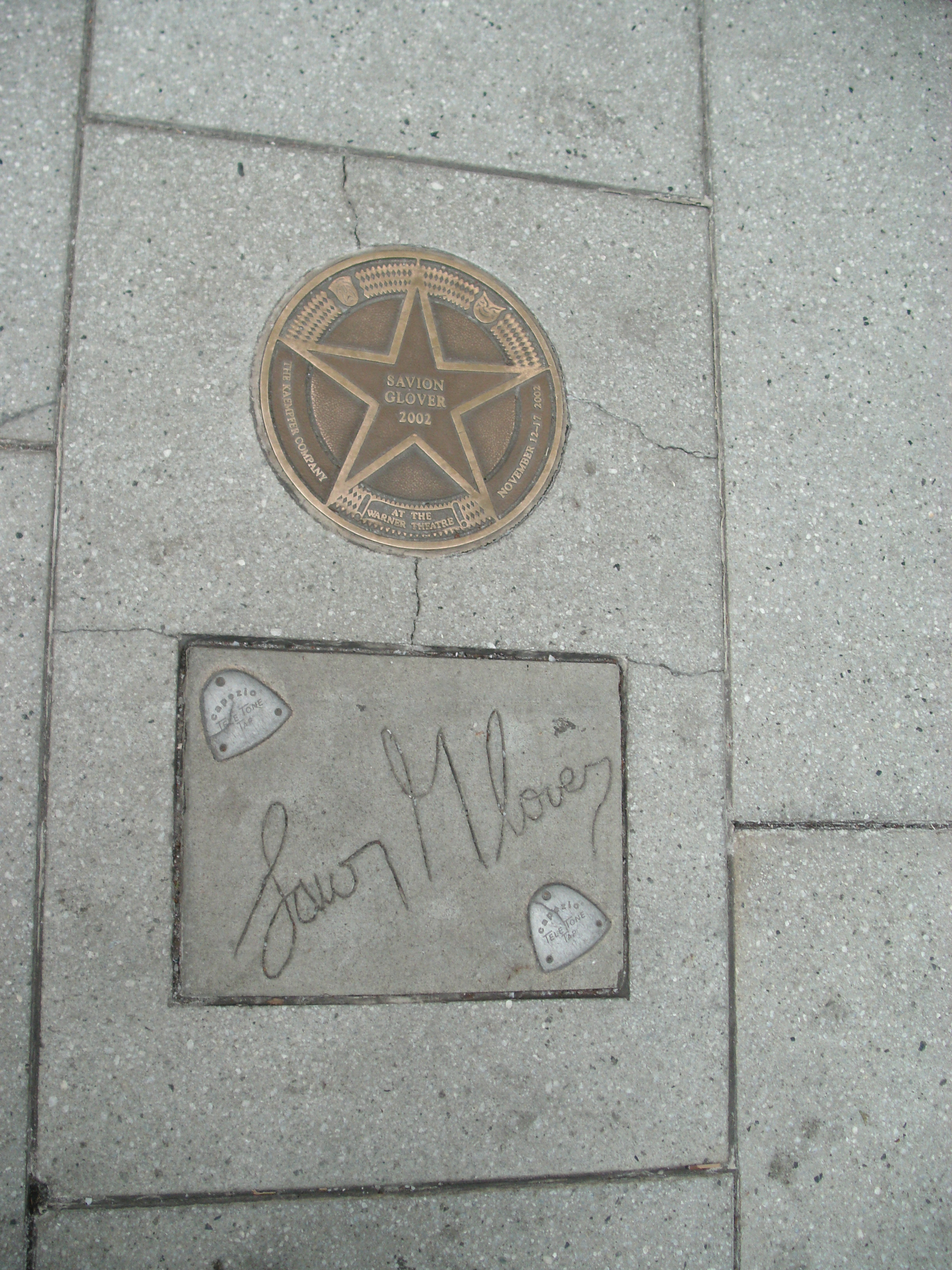 Image taken by me for Wikipedia